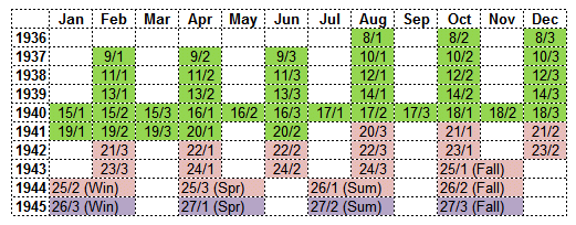 Grid showing volume number/issue number of Thrilling Wonder Stories from 1936 to 1955. The color coding indicates the editor, as follows: Green: Mort Weisinger Pink: Oscar Friend Purple: Sam Merwin